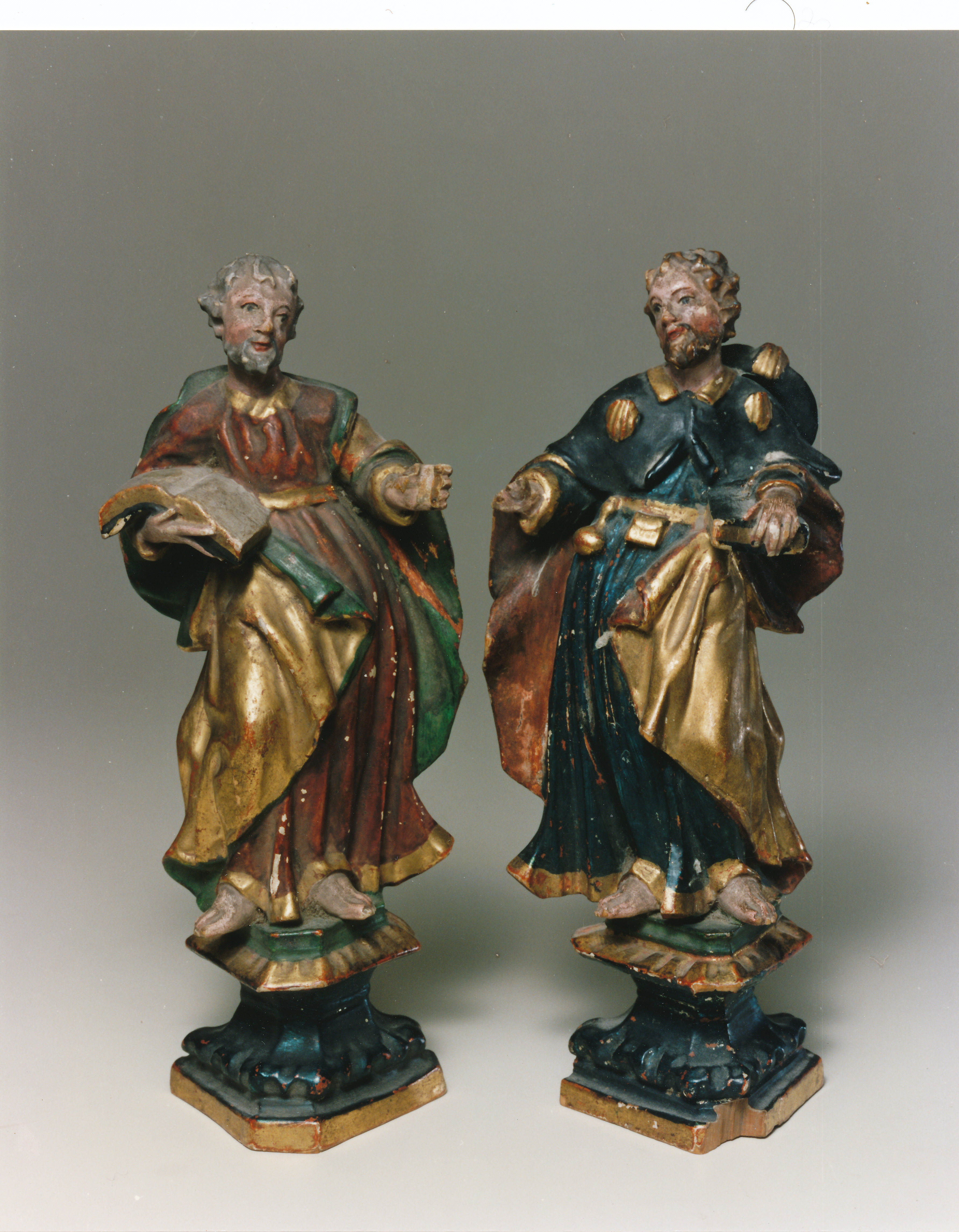 Woodcarved polychrome figure representing Saint John Baptist from Val Gardena, 18th century.